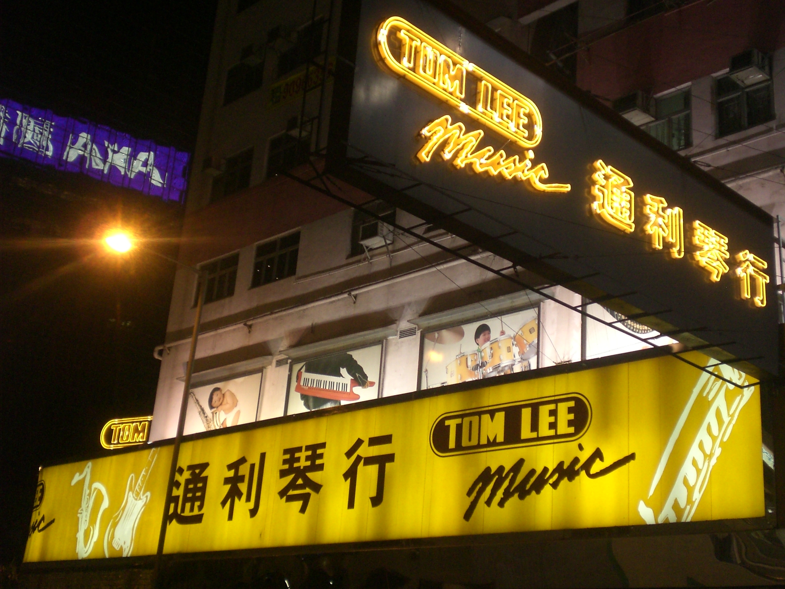 通利琴行, 灣仔史釗域道店, Tom Lee Music, Stewart Road, Wan Chai, Hong Kong.